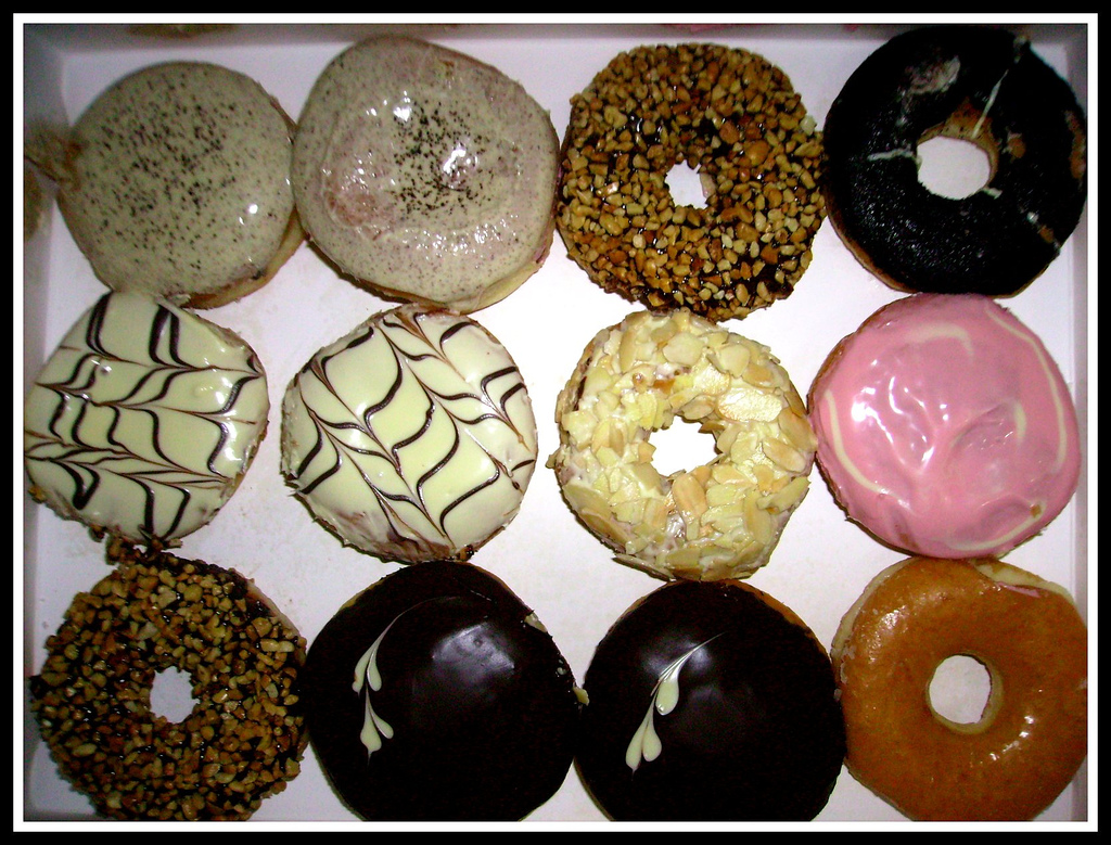 J.CO Donuts photography materials